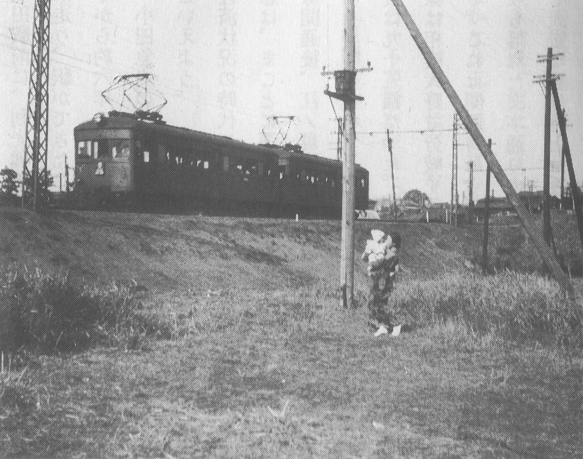 An Odawara Express series 1 EMU running between Shimo-kitazawa and Higashi-kitazawa, in 1936